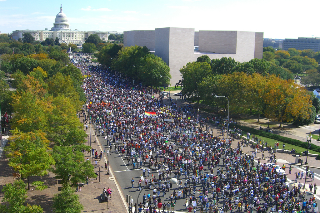 National Equality March on Washington